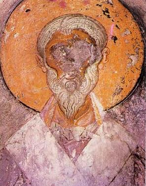 Icon of the Pope Alexander of Alexandria in Veljusa Monastery